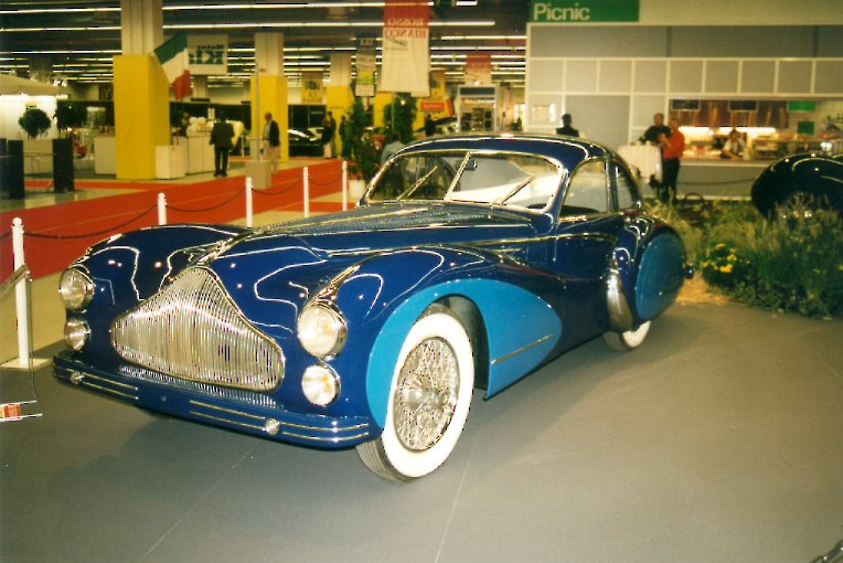 Talbot T26 Grand Sport Coupé by Saoutchik - 1948.